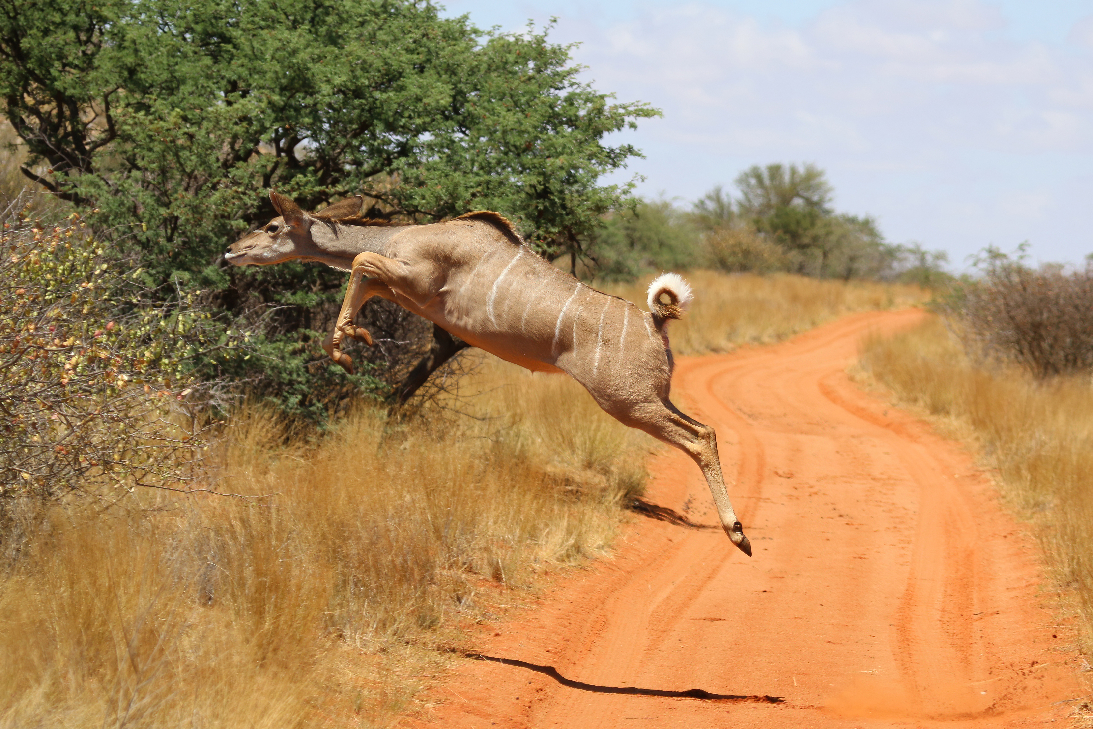 Greater kudu (Tragelaphus strepsiceros) cow, Tswalu Kalahari Reserve, South Africa